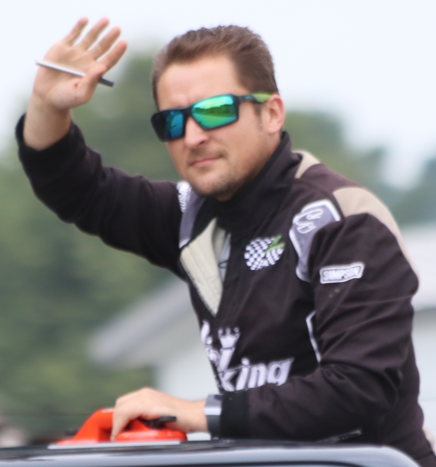 NASCAR Xfinity Series driver Stephen Leicht waves to fans at the 2018 Road America race.